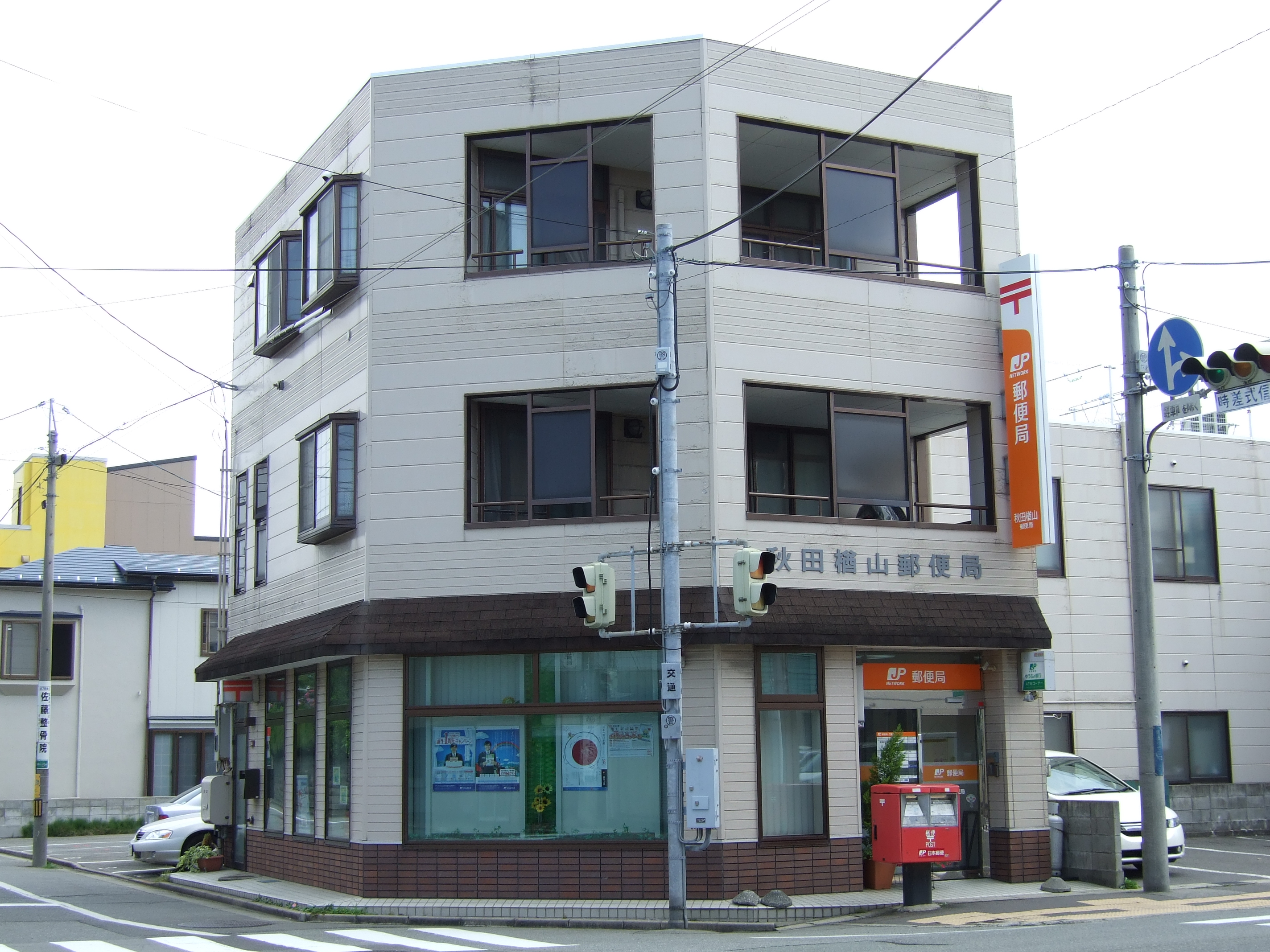 Akita Narayama post office, in Akita-city, Japan